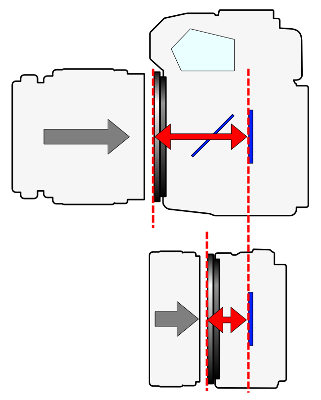 Flange Focal Length (2 types; Single-lens reflex camera and Mirrorless interchangeable-lens camera)